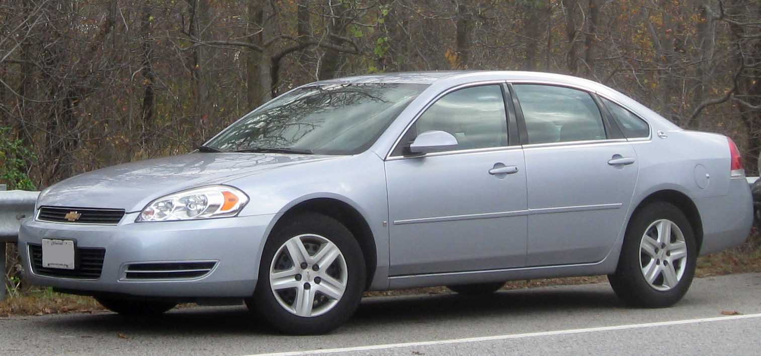 2006-2009 Chevrolet Impala photographed in College Park, Maryland, USA.